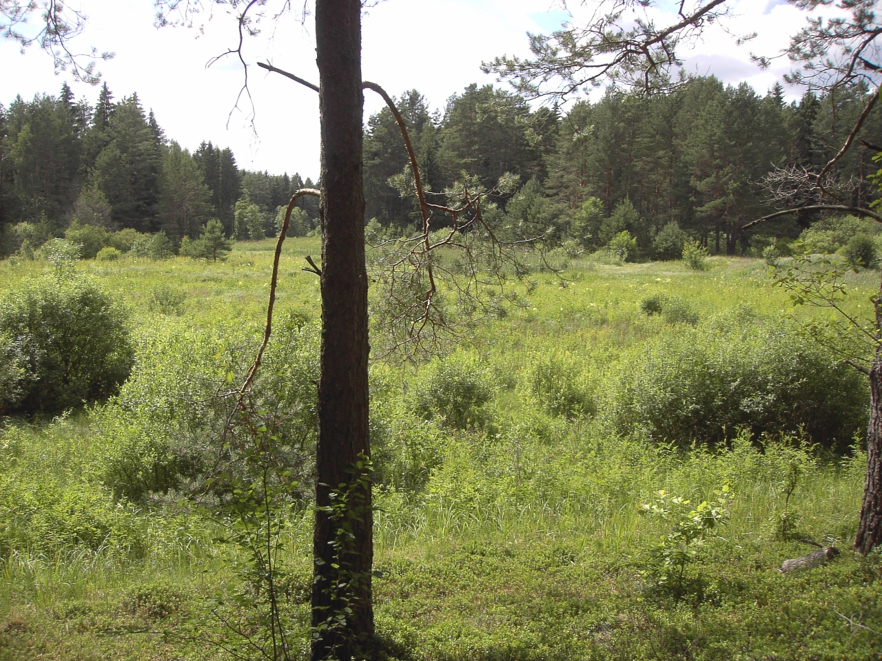 River Kena valley near Village Kryžkelis